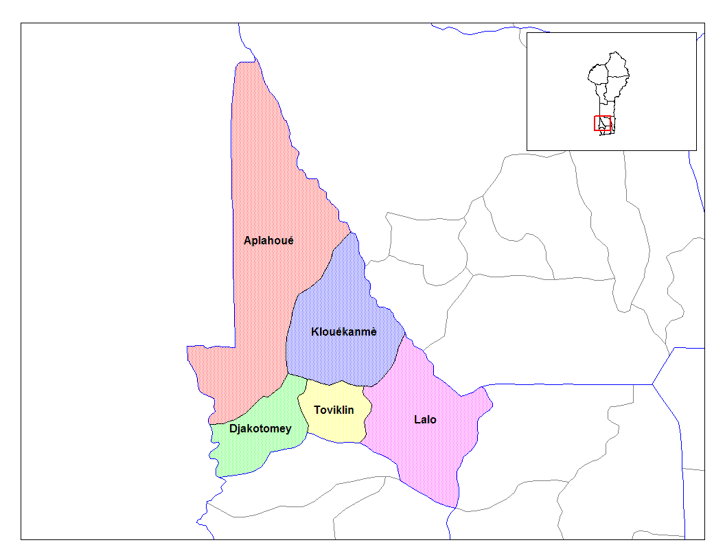 Map of the communes of the department of Kouffo, Benin. Created by Rarelibra for public domain use. Created using MapInfo Professional v7.5 and various mapping resources.